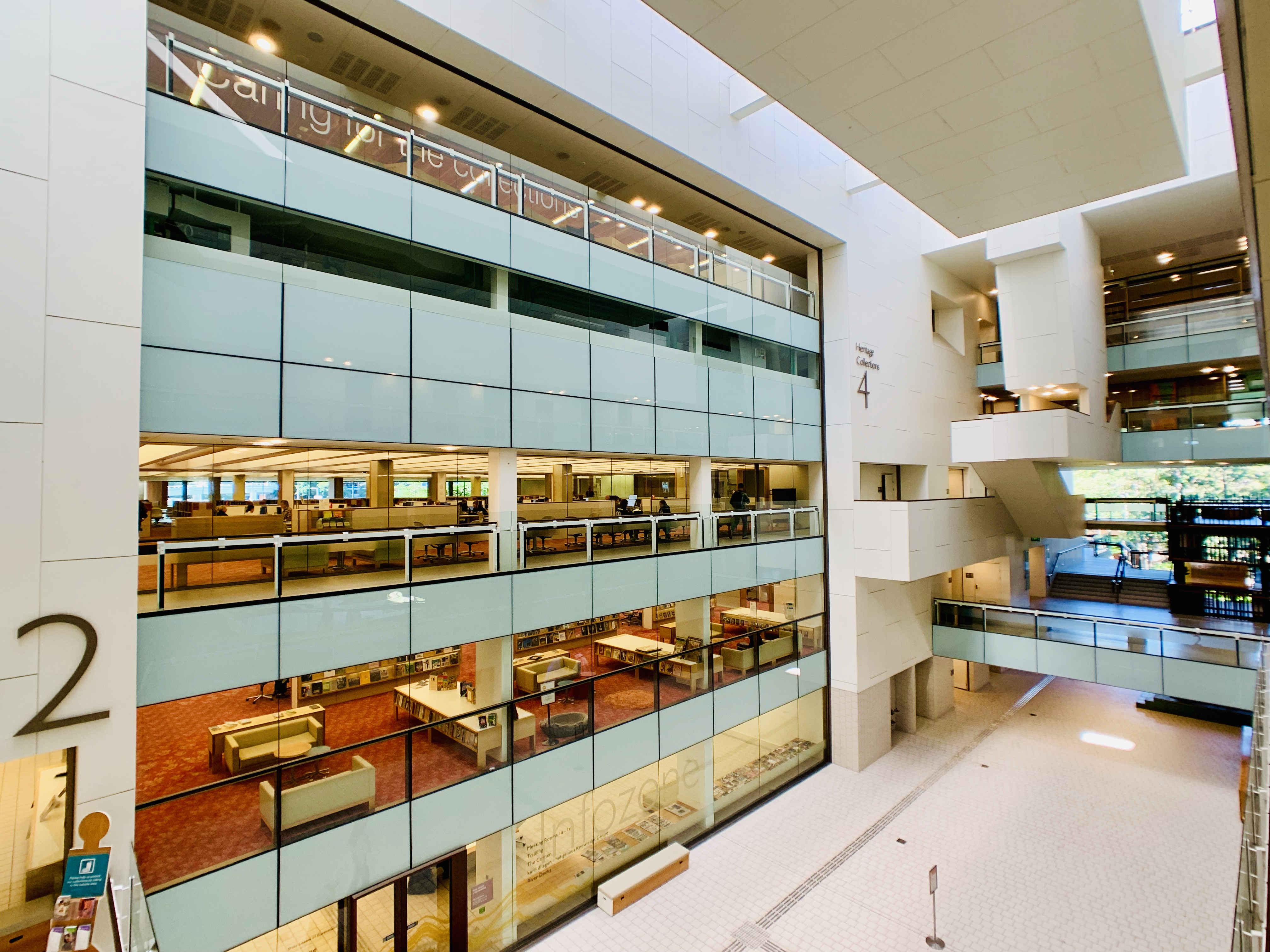 Atrium in State Library of Queensland